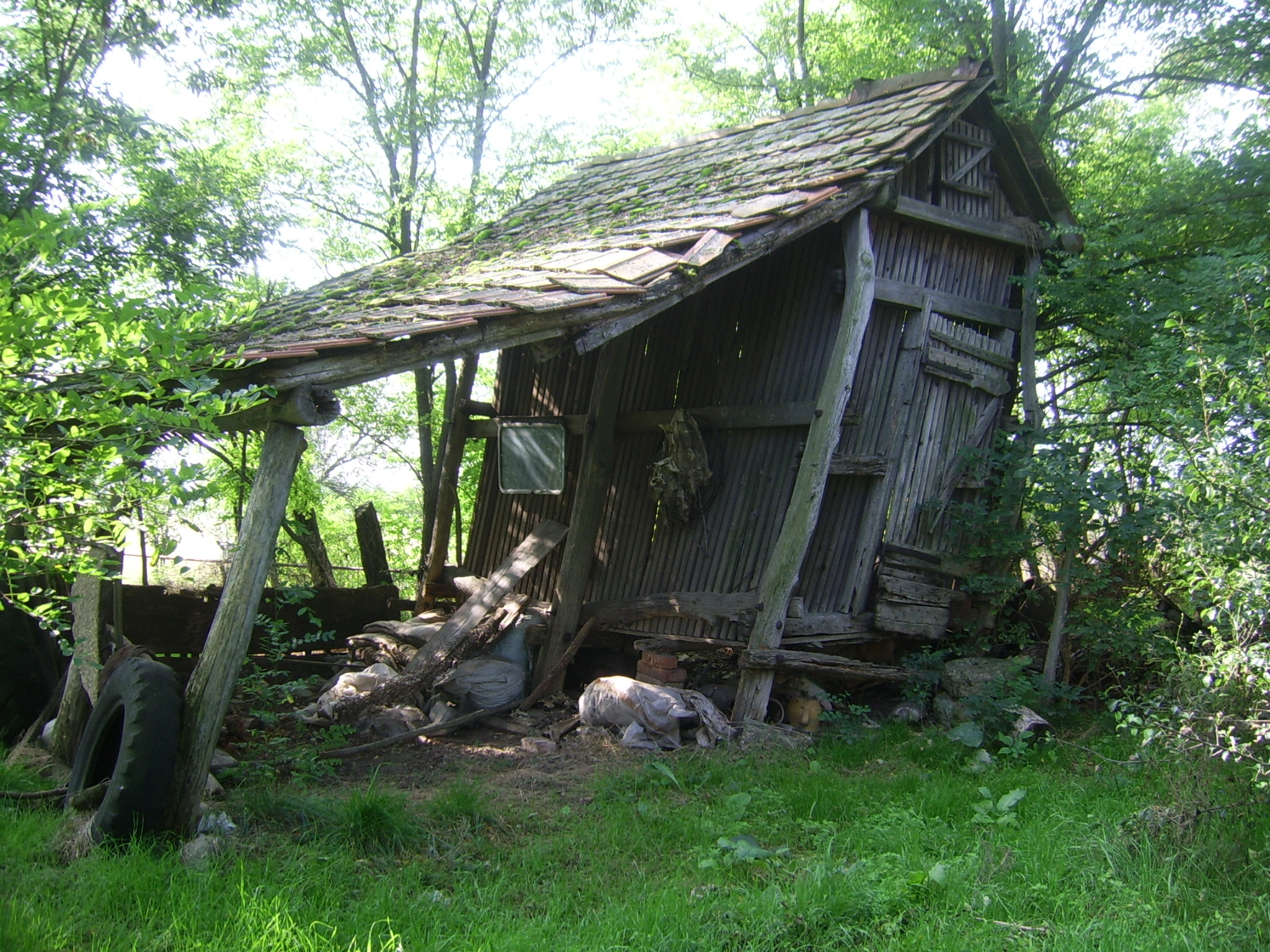 Abandoned building used as store of corn in Zalota, north of Szentes, Hungary.